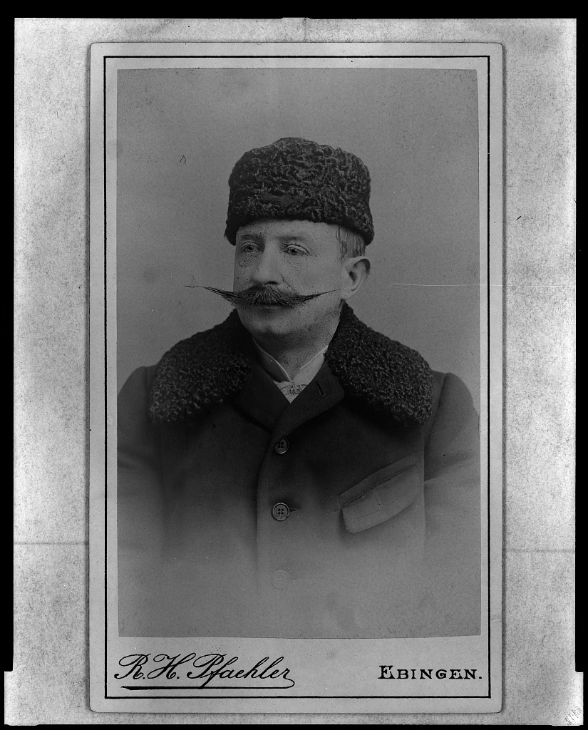 Count Henry Adelmann von Adelmannsfelden, not after 1893.